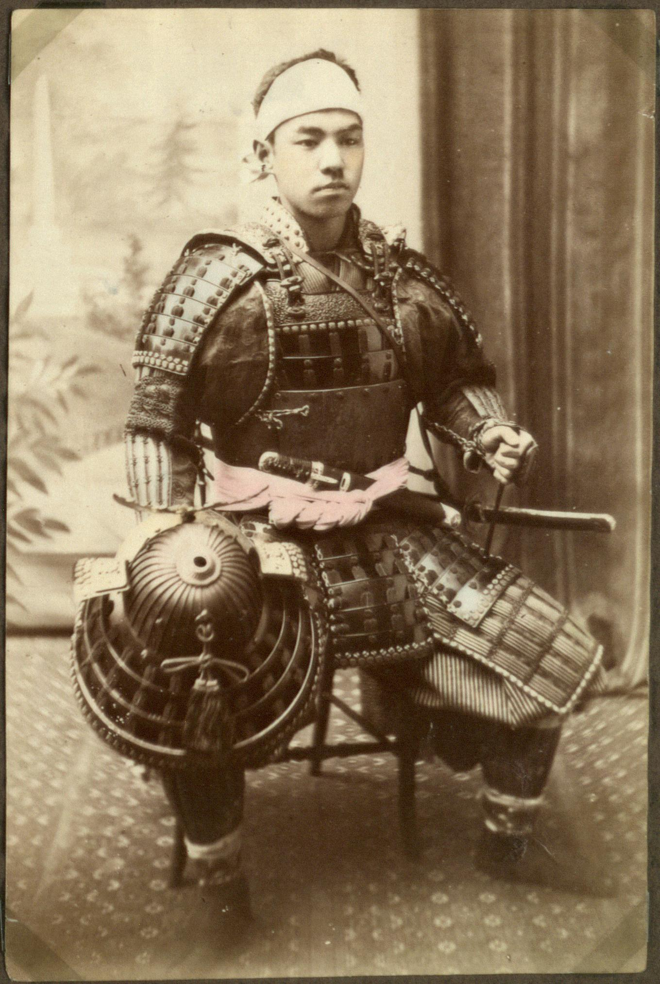 Photograph. Donated by Doctor J. Johnsson 1925. No. es_b_00675